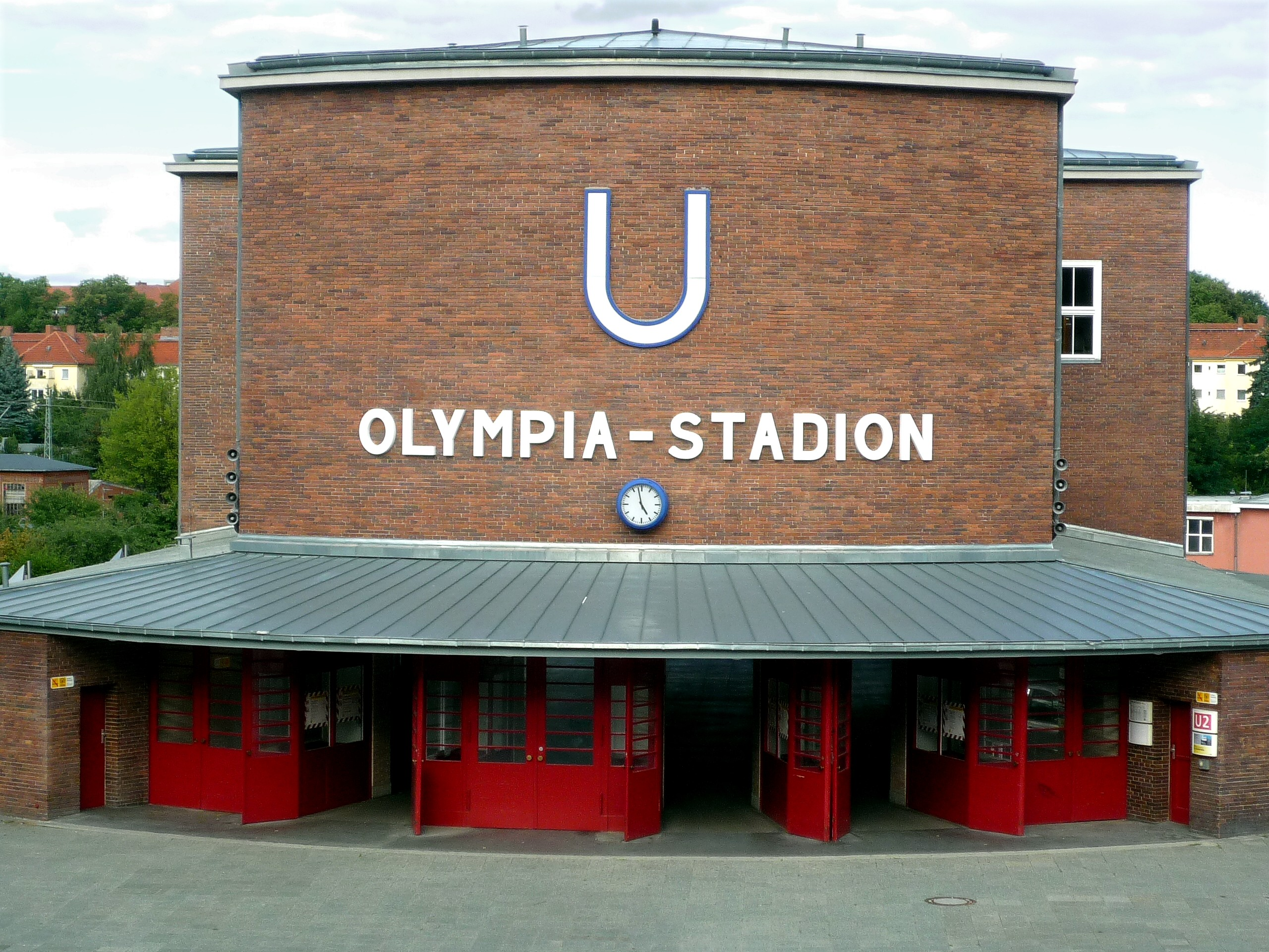 Subway-station "Olympia-Stadion" in Berlin. Entrance hall. Architect: Alfred Grenander